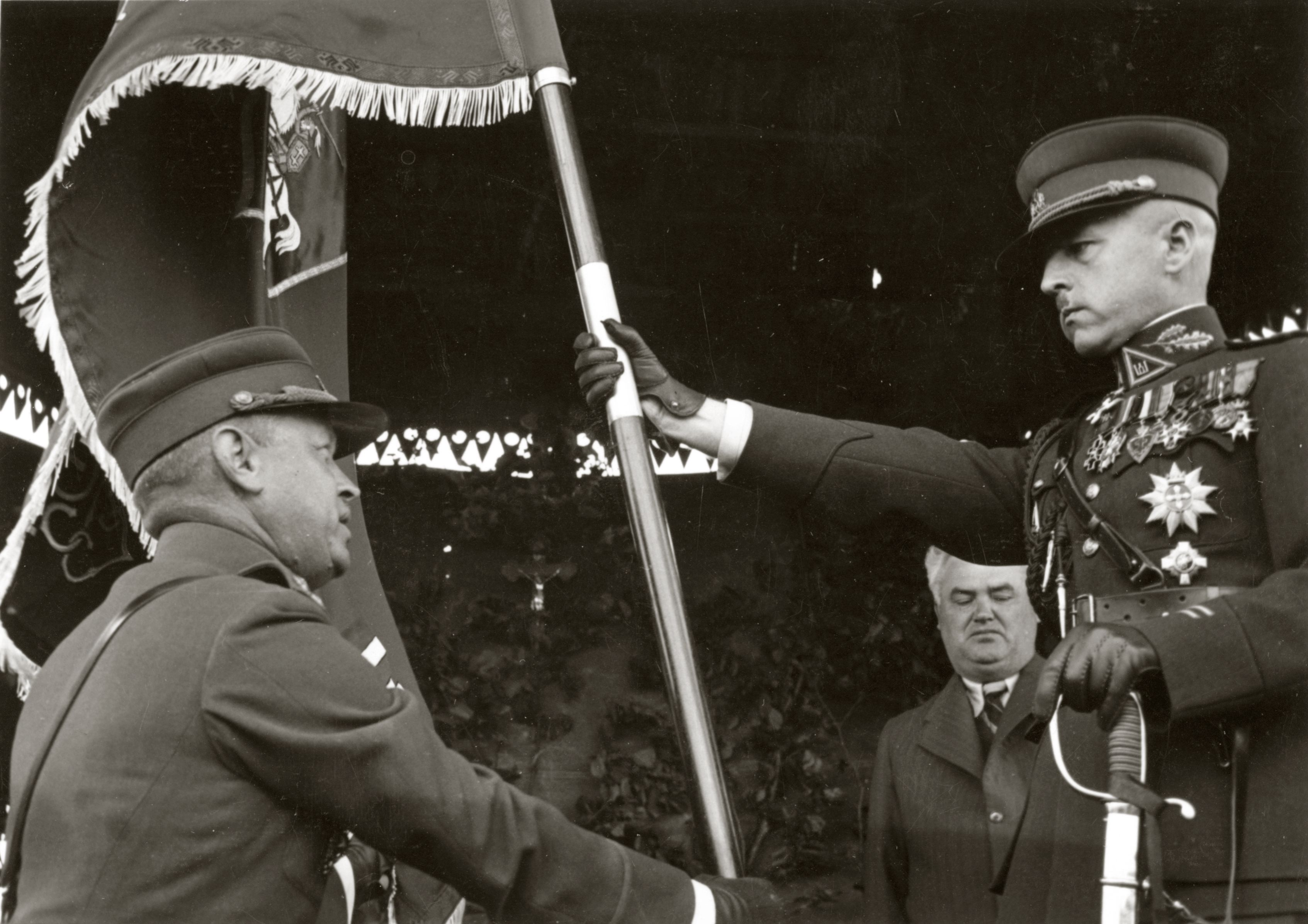 General Stasys Raštikis standing with the Lithuanian Armed Forces flag during a ceremony in 1939.